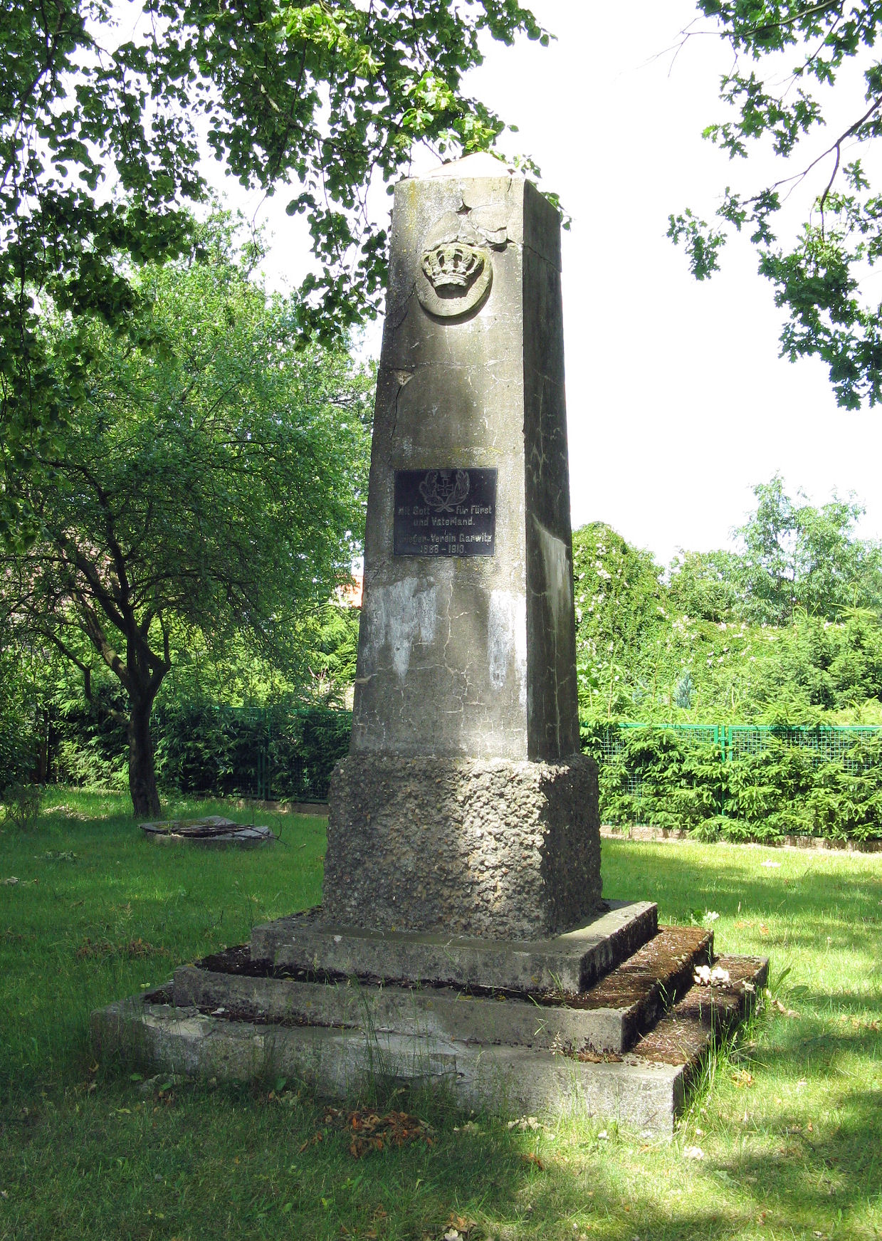 Memorial in Garwitz, disctrict Ludwigslust-Parchim, Mecklenburg-Vorpommern, Germany